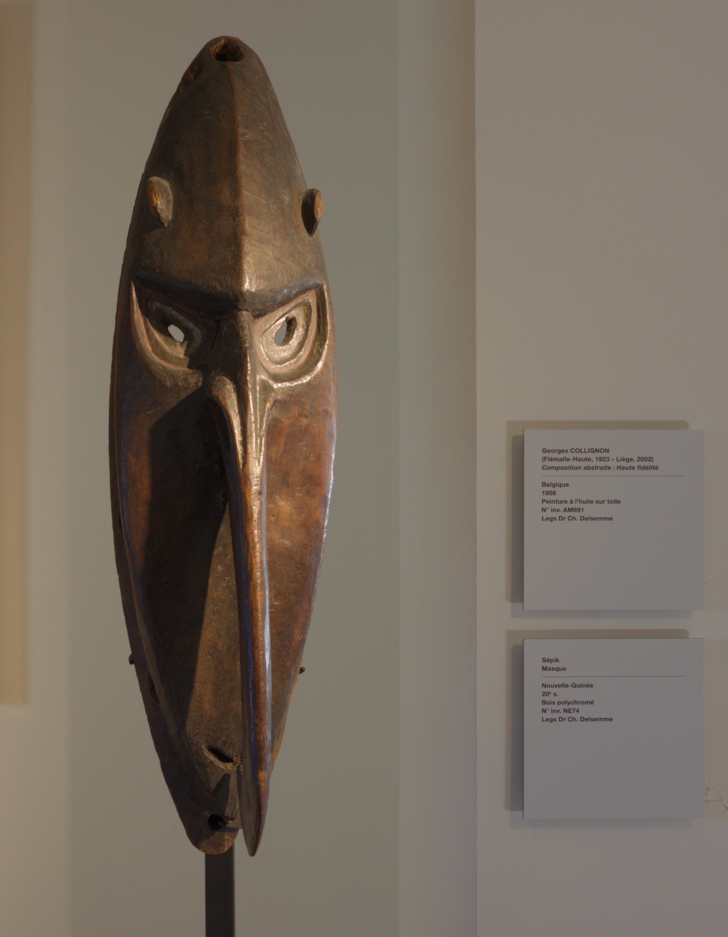 Wooden Sépik mask from 20th century New Guinea Musée L This image is part of the Natural Image Noise Dataset